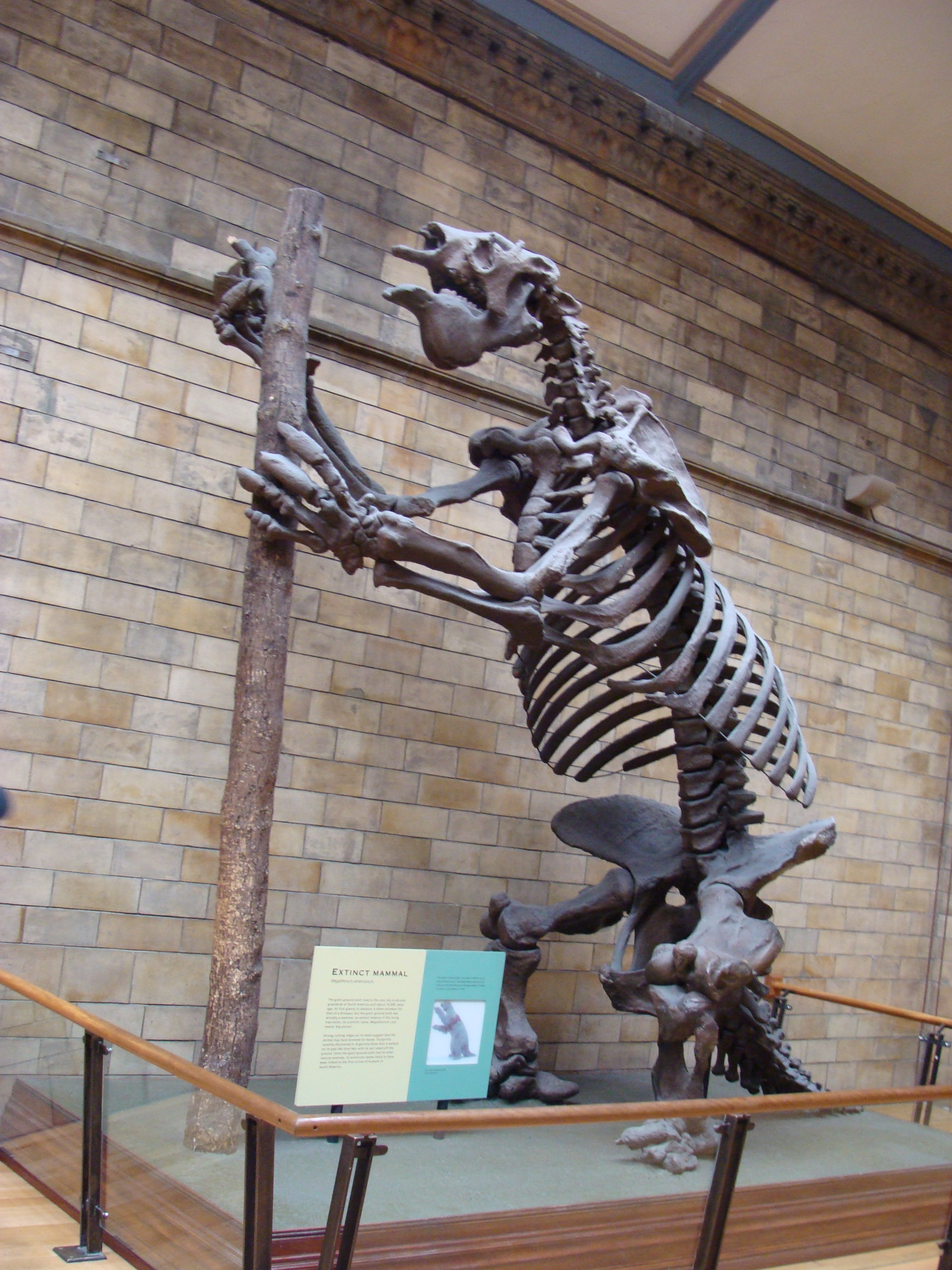 Megatherium americanum in the Natural History Museum of London